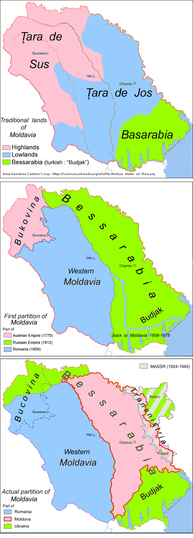 Historic map: partitions of Moldavia